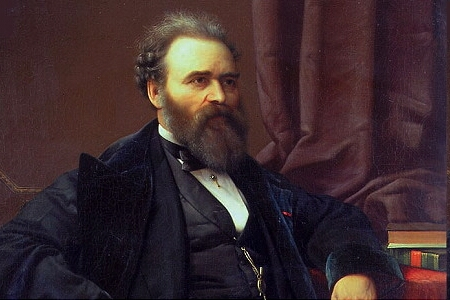 Self-portrait of the Dutch-Belgian painter Petrus van Schendel